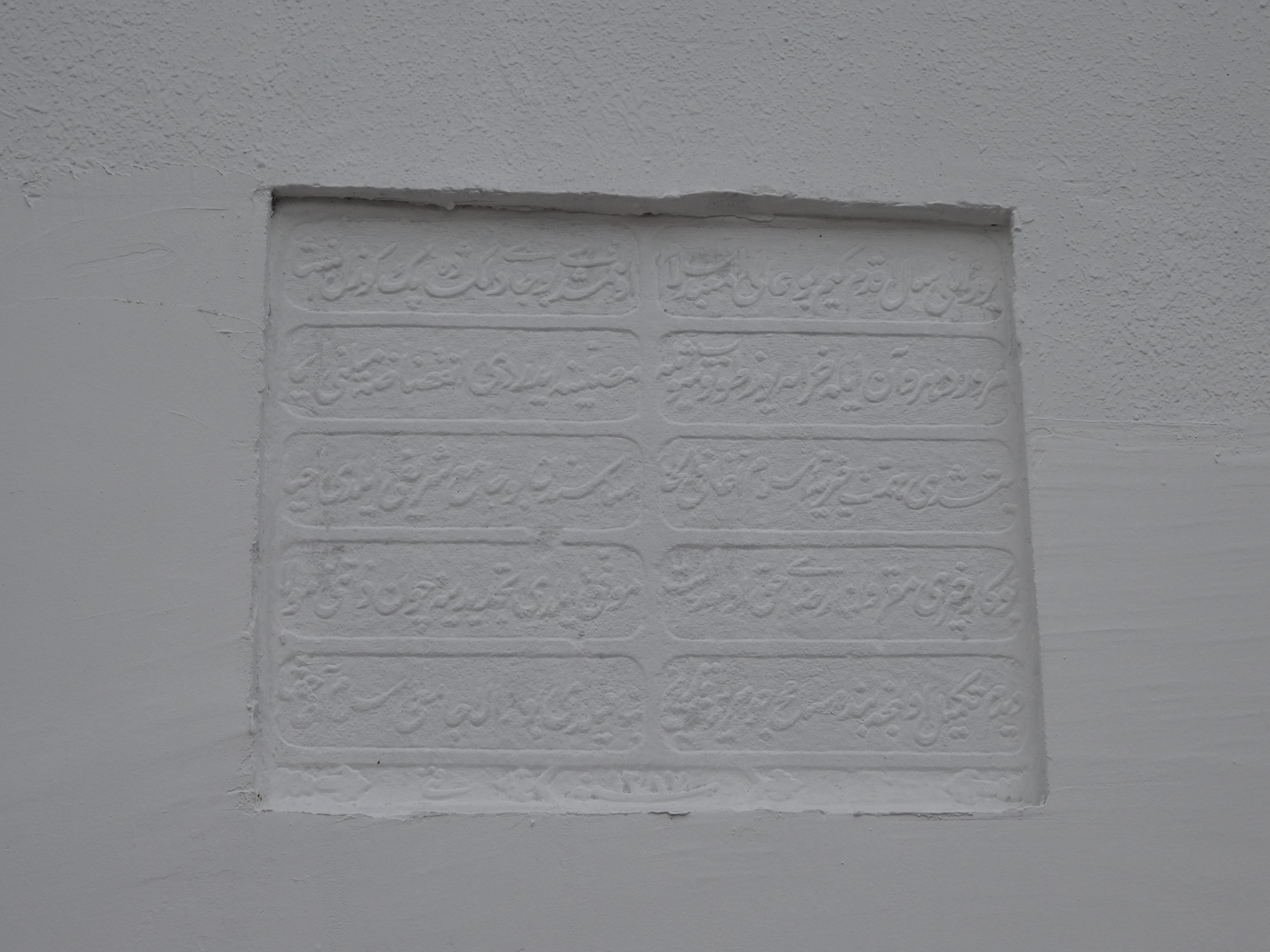 Islam-aga's Mosque, Nis, Serbia.